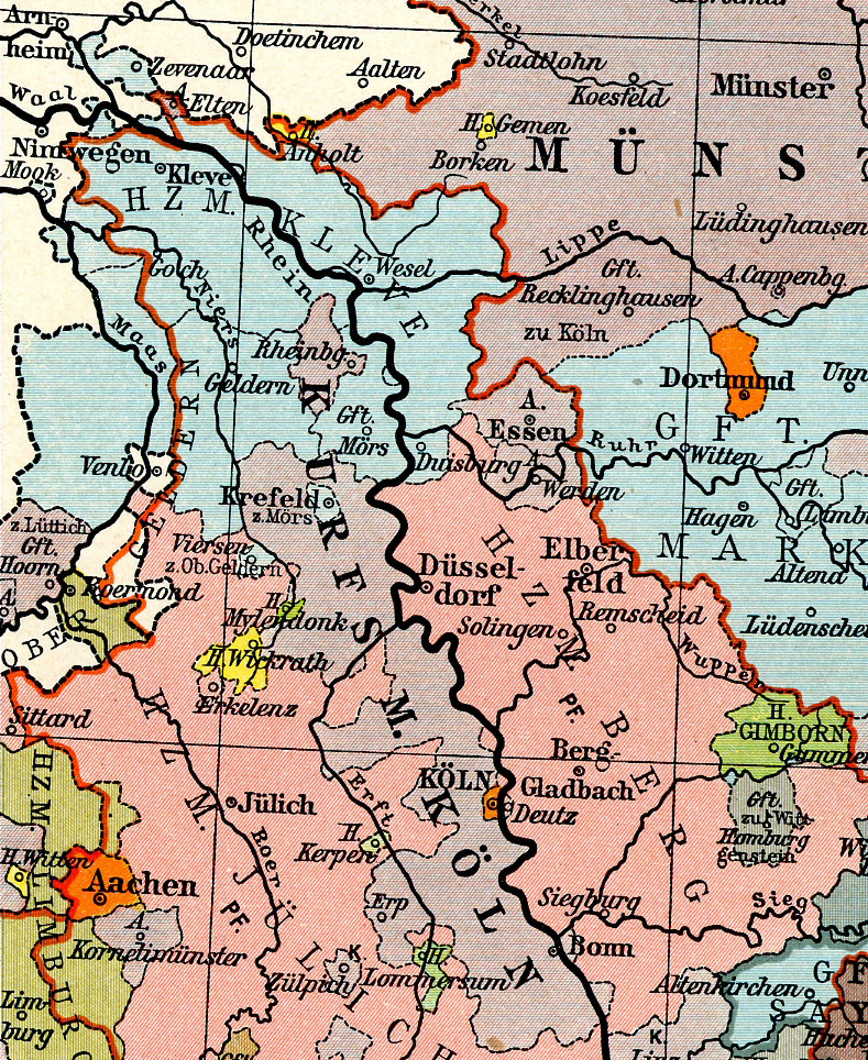 Detail of scan of plate 37 "Nordwestdeutschland 1789" from F. W. Putzgers Historischer Schul-Atlas, 29th edtition, 1905. The map is coloured according to the 1789 borders; the red lines are 1905 borders.